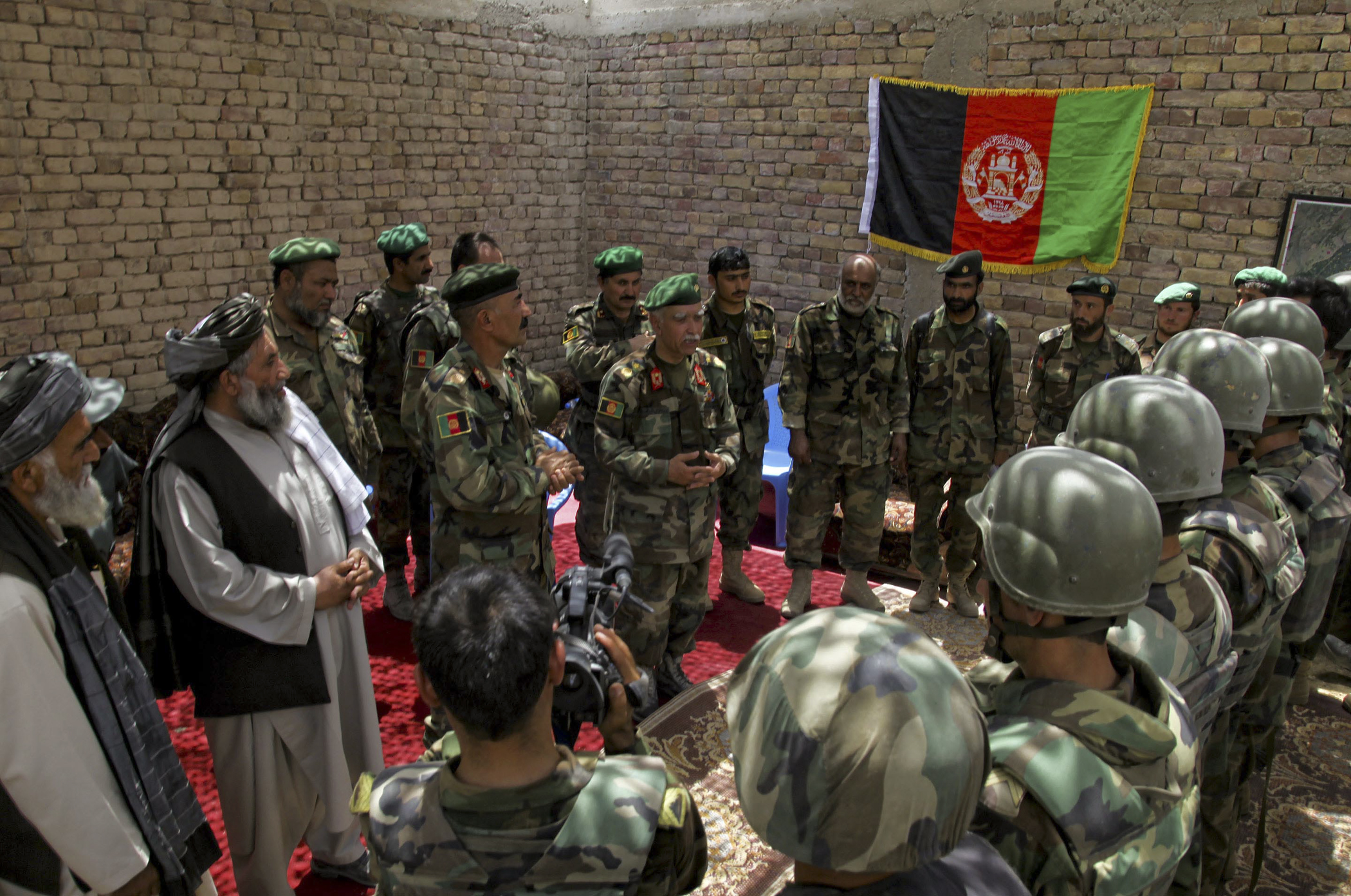 Afghan National Army Brig. Gen. Sheer Mohammad Zazi speaks during a key leader engagement hosted by 1st Battalion, 5th Marine Regiment involving Afghan National Army soldiers and local Nawa District officials at Patrol Base Jaker in Afghanistan's Helmand Province July 28. 1/5 is part of Regimental Combat Team 3 whose mission is to conduct counter insurgency operations in partnership with the Afghan national security forces in southern Afghanistan.